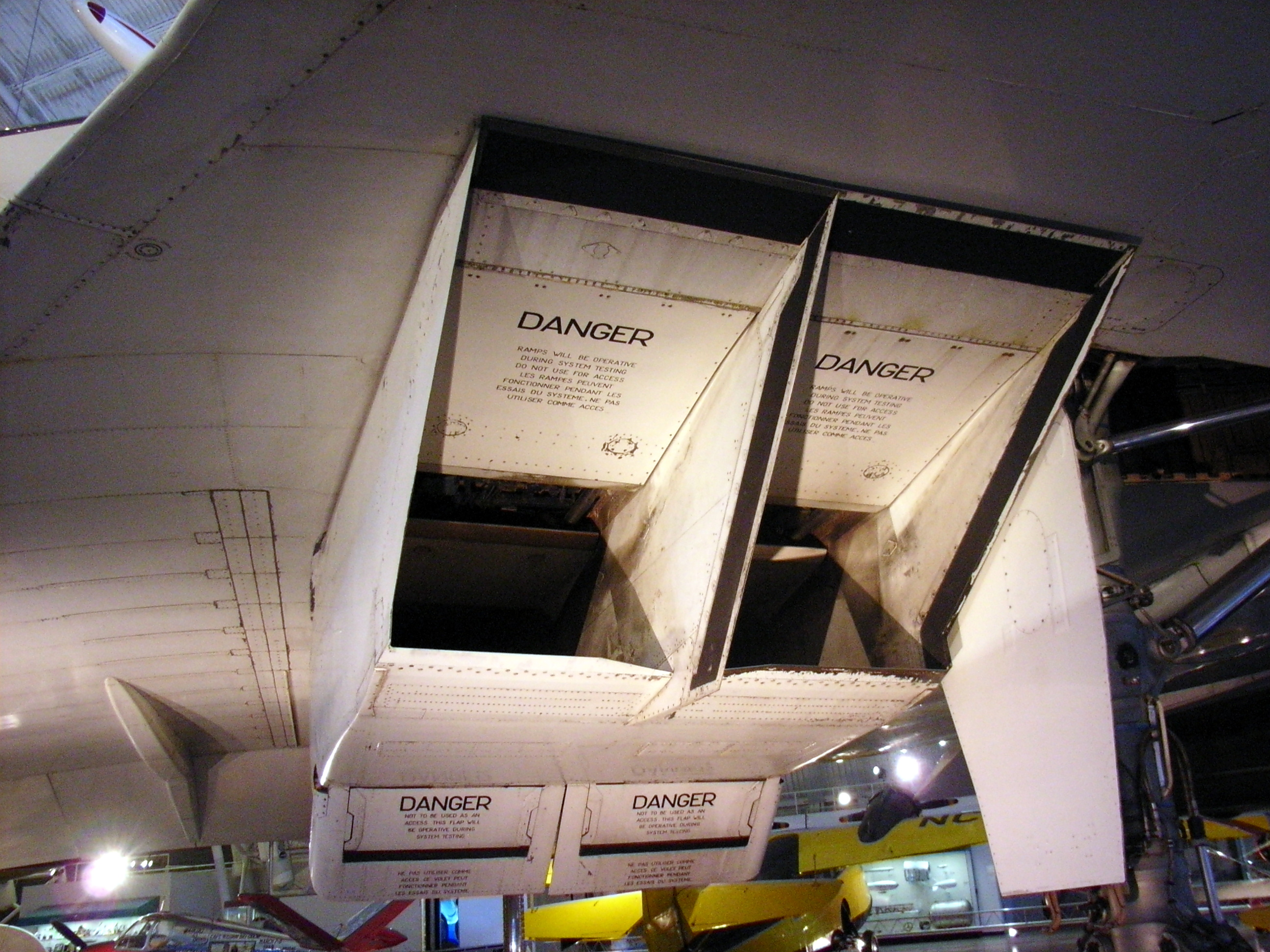 I took this picture of the concorde ramp system (reactor entrance) in the Steven_F._Udvar-Hazy_Center museum. It illustrates the engines section fo the Concorde perfectly I hope.